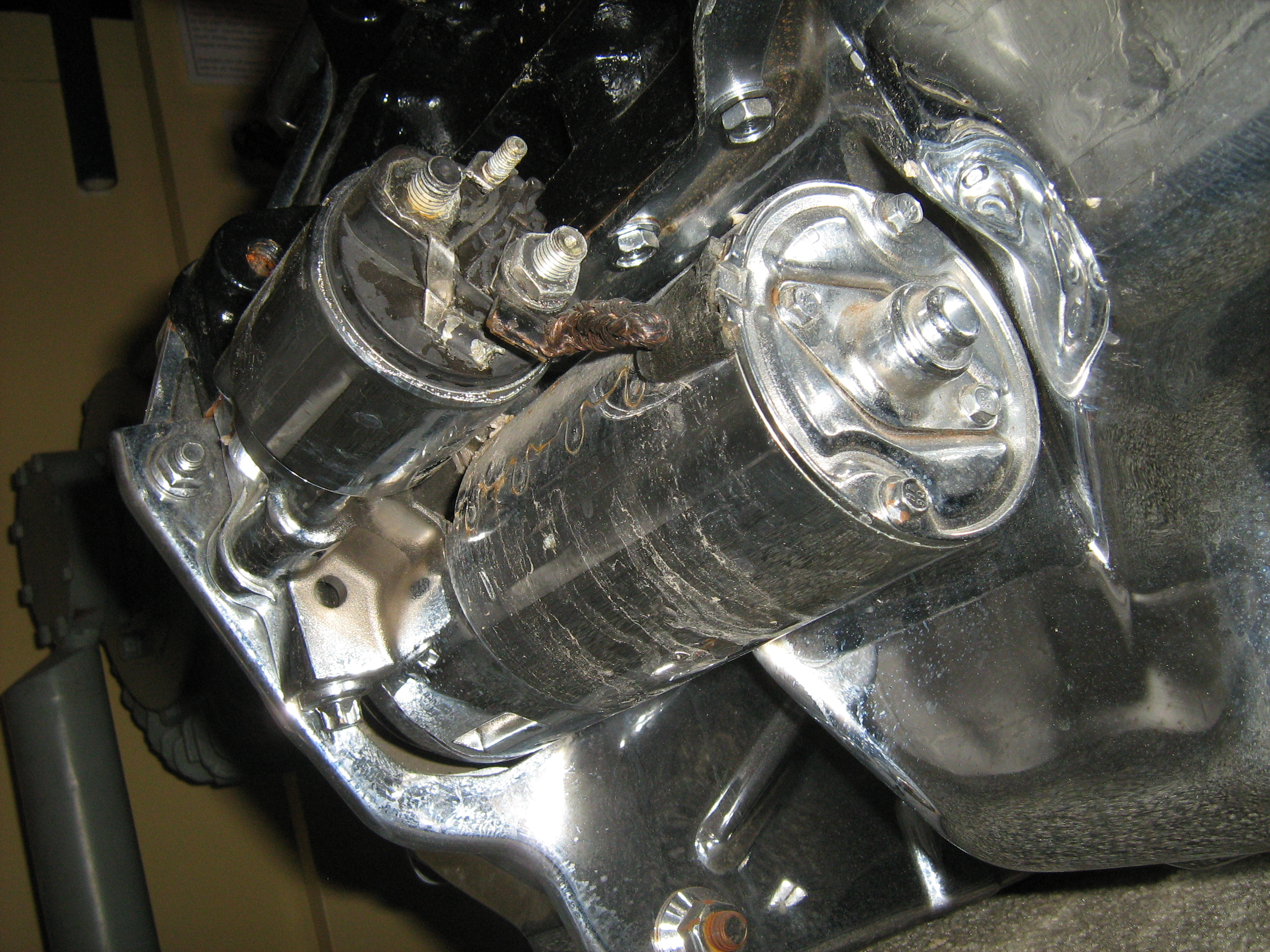 Jeep 2.5 liter 4-cylinder engine, chromed - close up of the starter as viewed from the bottom. This engine was developed by American Motors Corporation (AMC) and continued to be manufactured by Chrysler. All were built in Kenosha, Wisconsin.